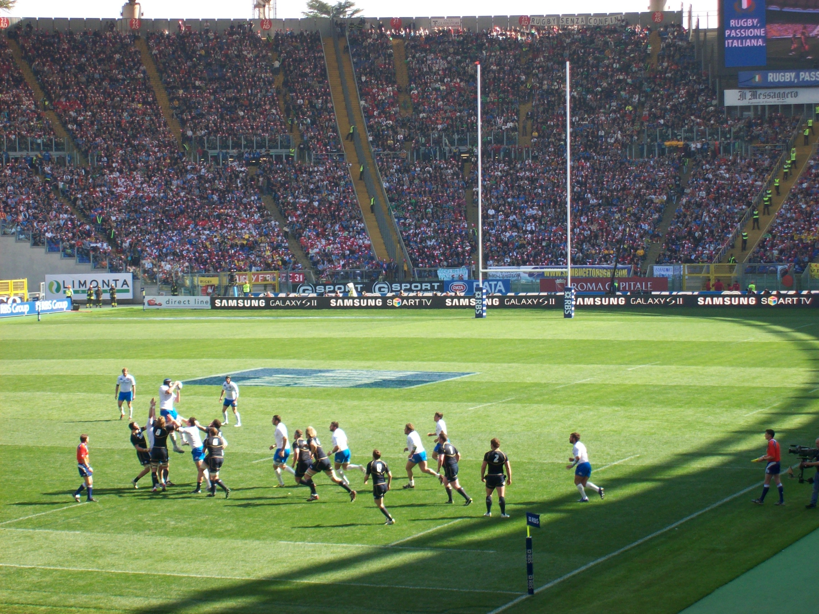 Line-out contested between Italy and Scotland rugby union teams at the 2012 Six Nations Championship at the Olympic Stadium, Rome